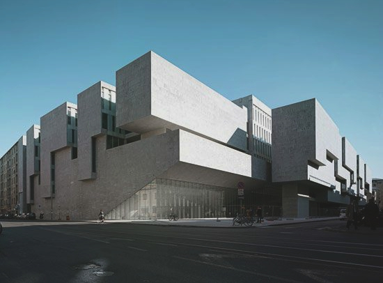 Università Bocconi